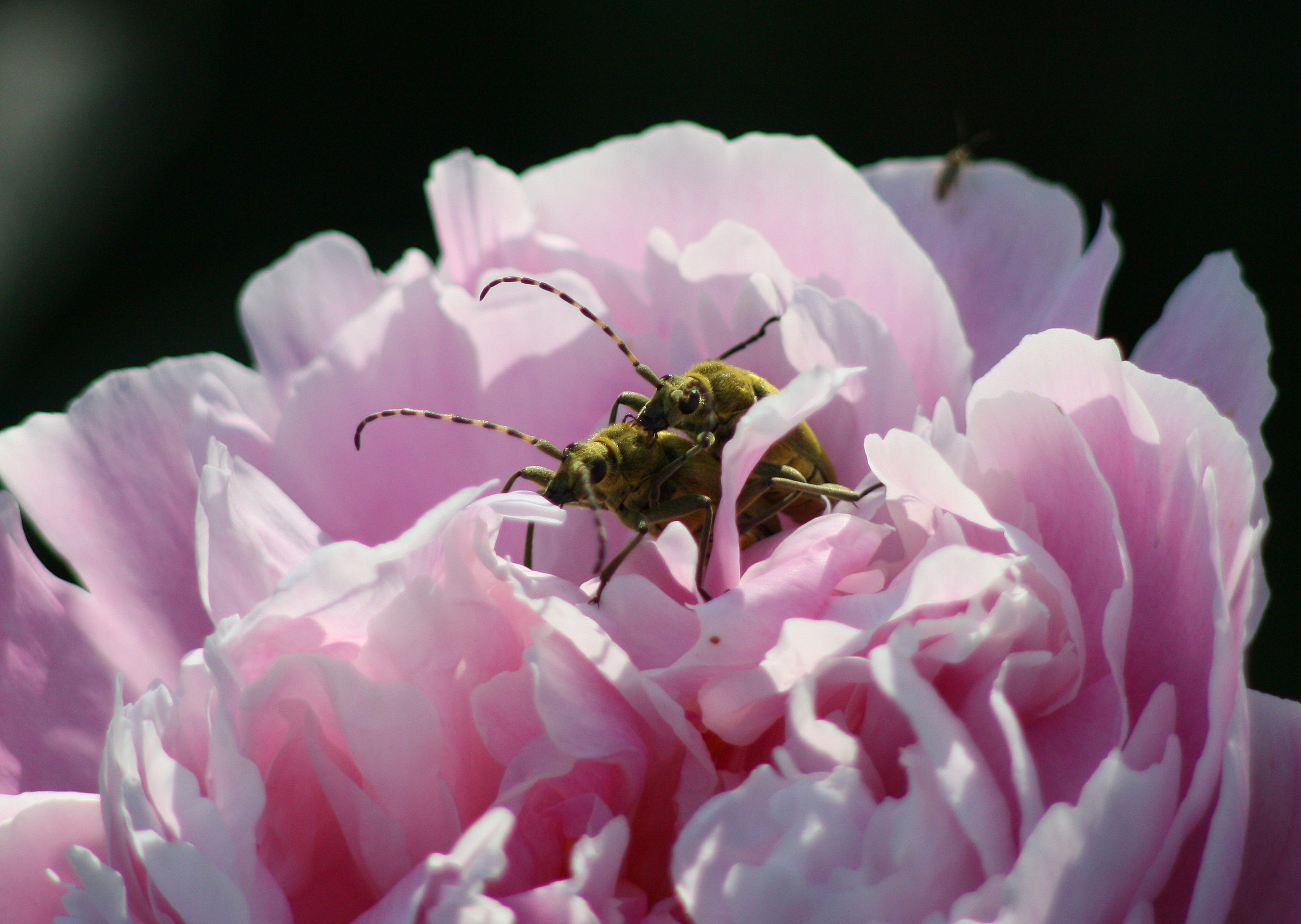 Mating couple of Anoplodera virens (also Lepturobosca virens) on a peony at Haukipudas, Finland.